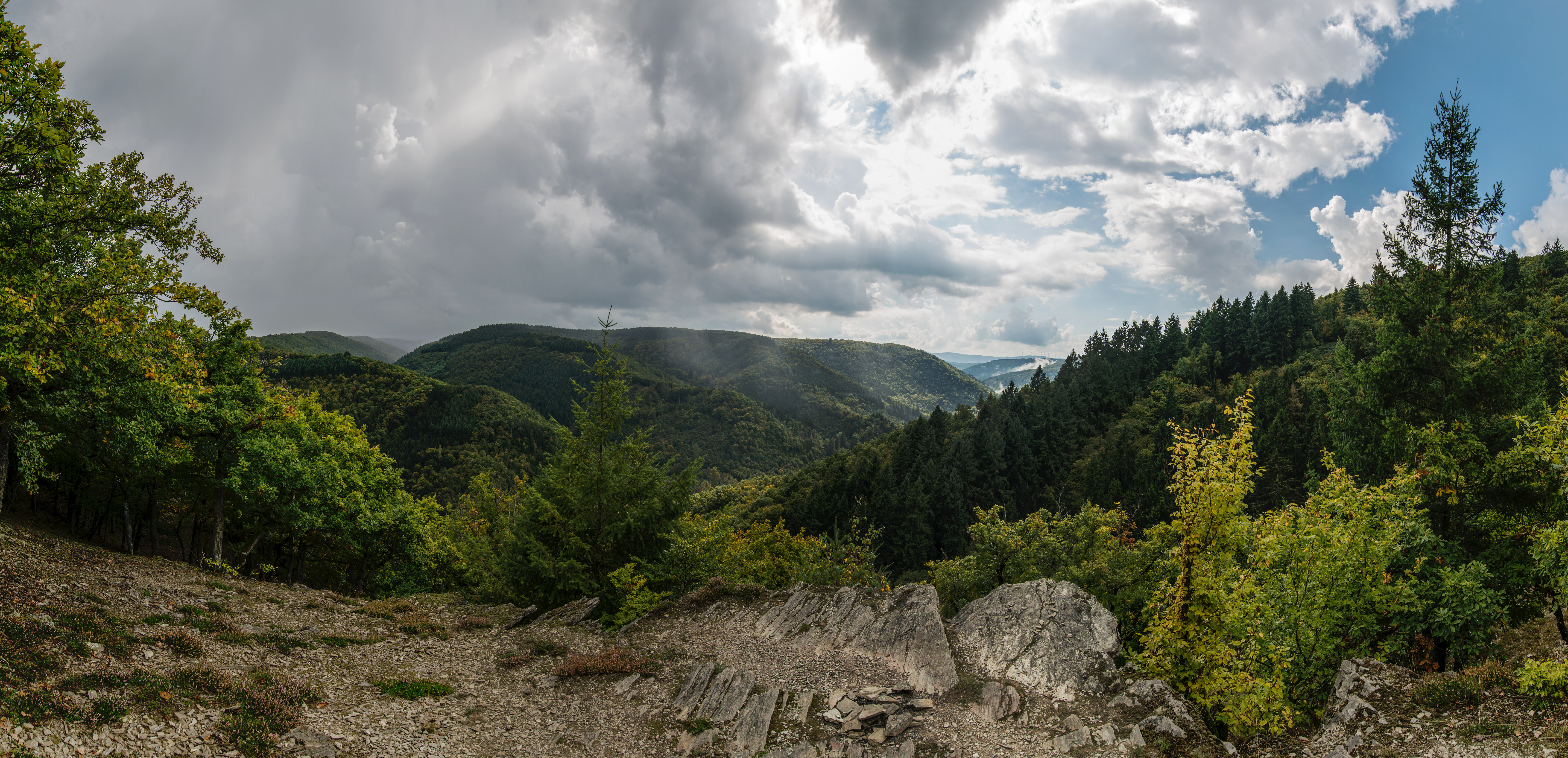 A view of the Wispertaunus, as seen from a viewpoint of the Wispertalsteig. See coordinates for exact location